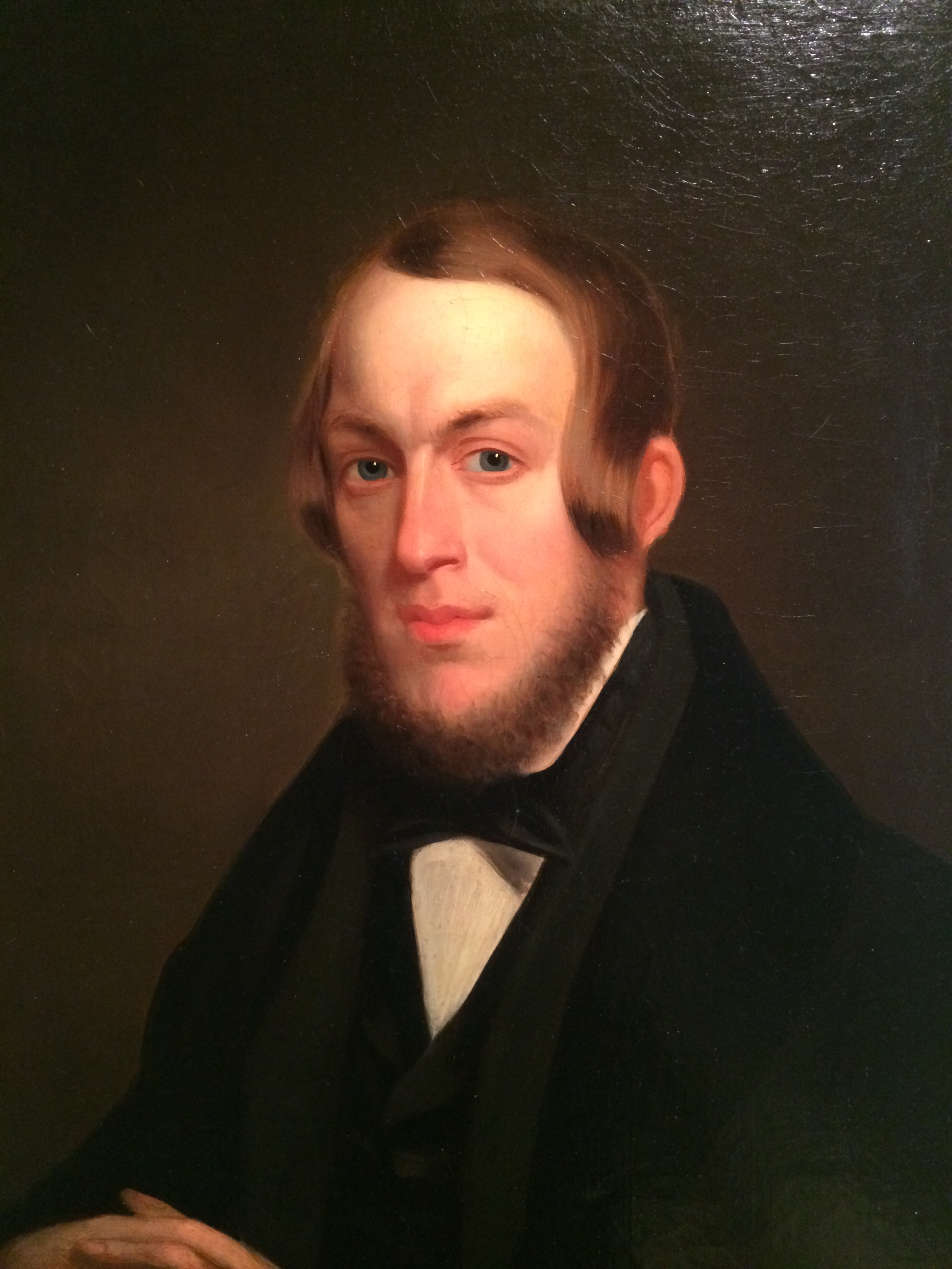 Portrait Painting by John Vanderlyn Junior of James Hamilton Shegogue